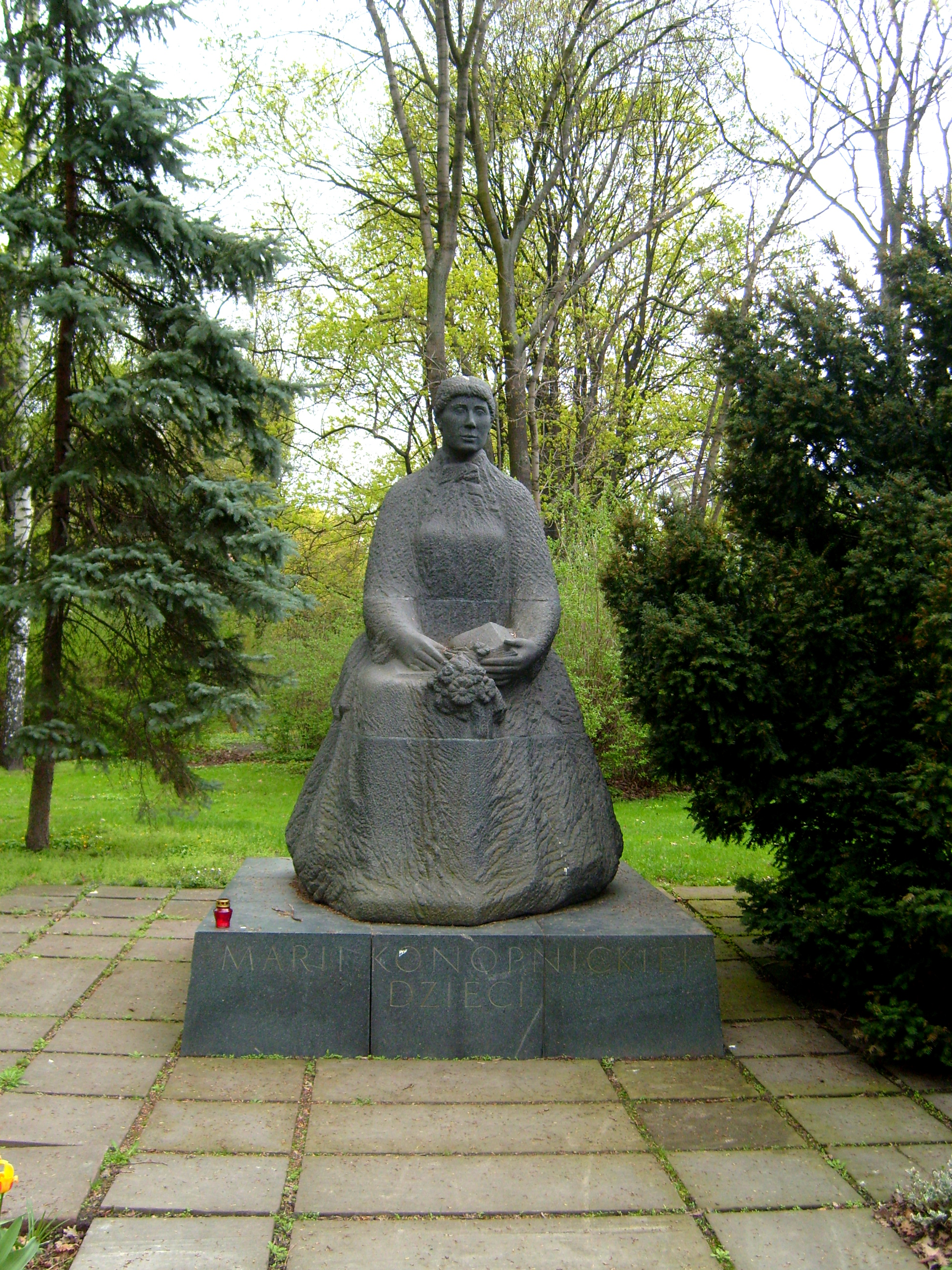 Monument of Maria Konopnicka in the Saxon Garden in Warsaw, Poland.